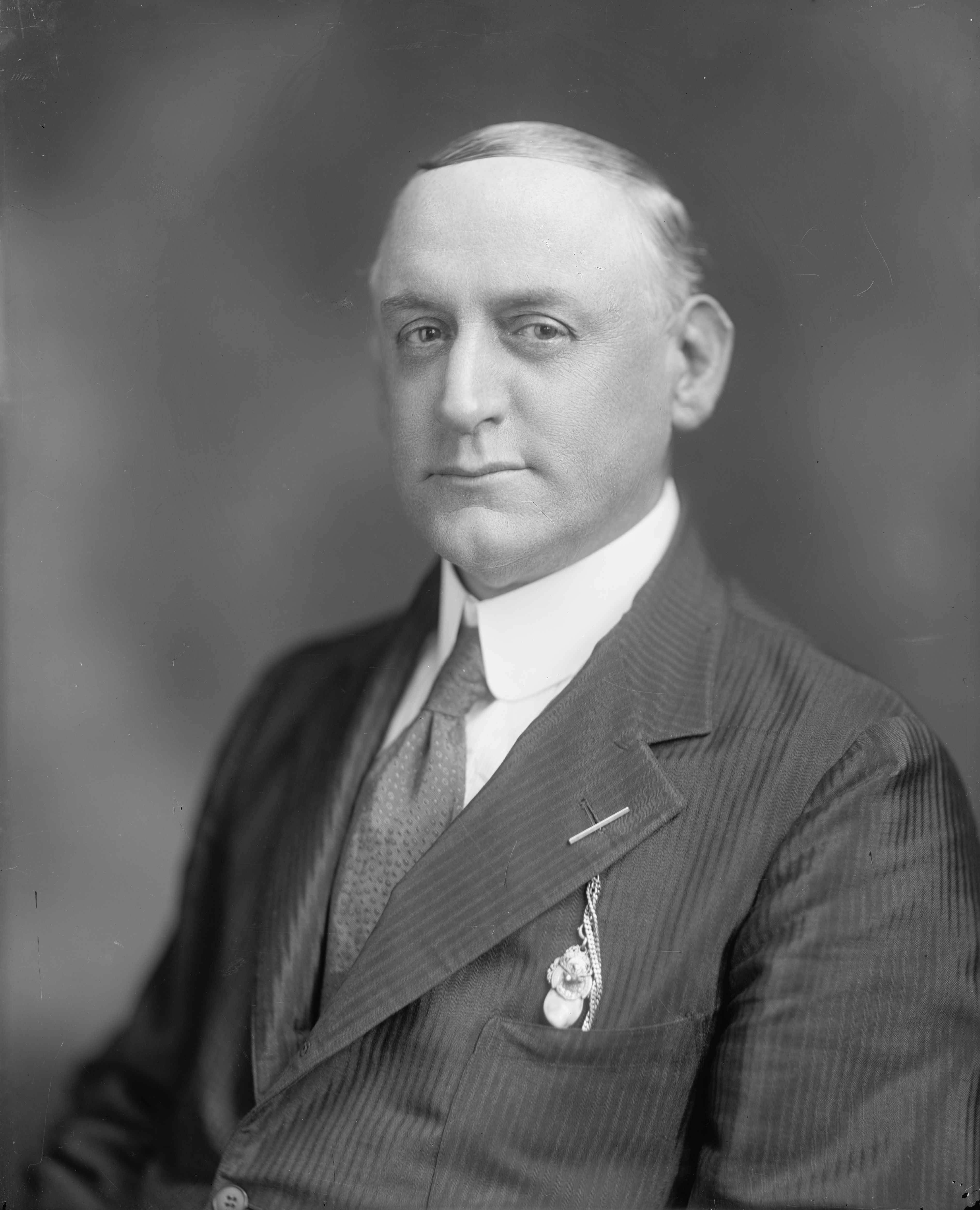 James P. Maher, Congressman from New York, and later mayor of Keansburg, New Jersey.